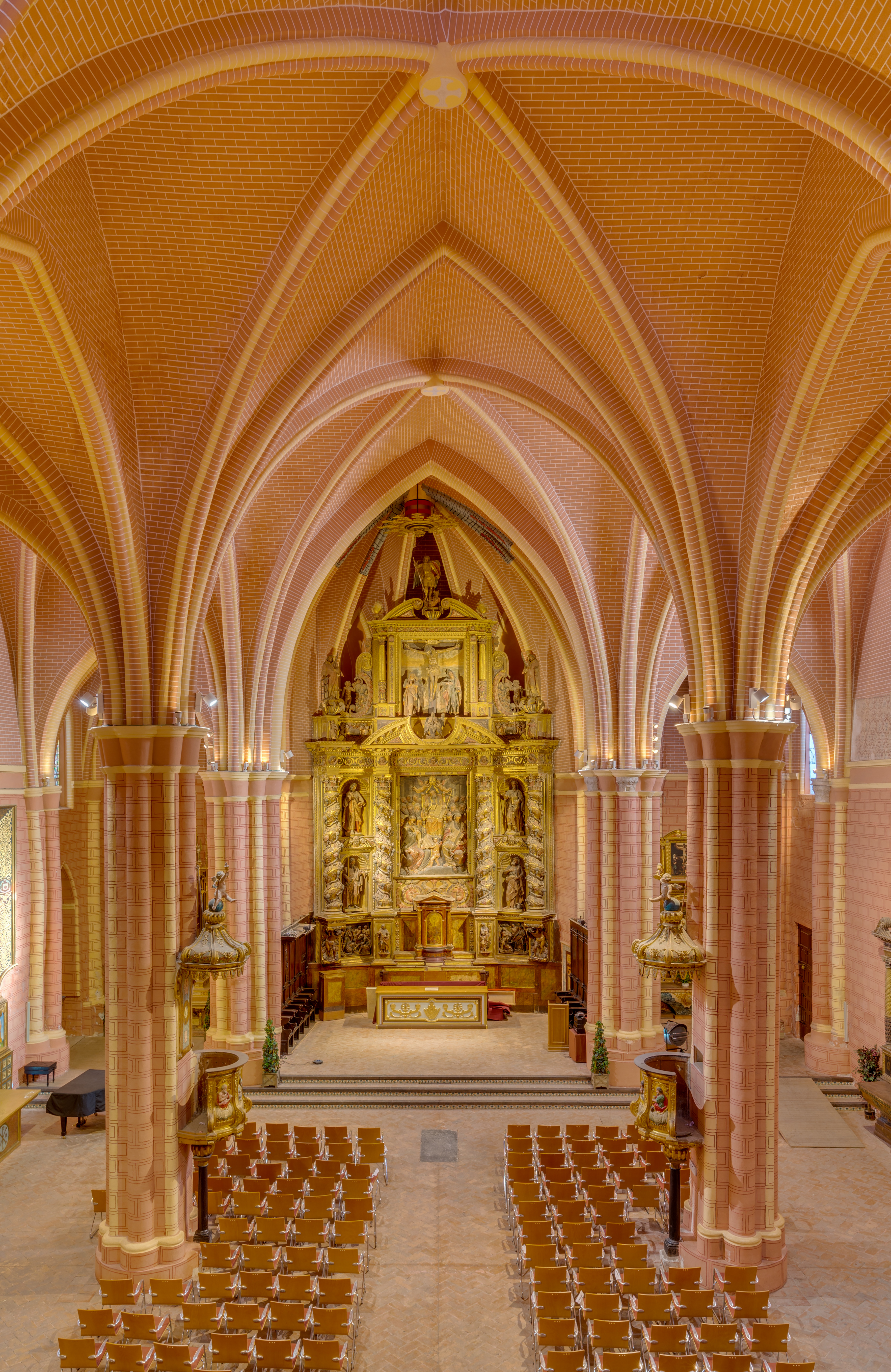 Church of San Pedro de los Francos, Calatayud, Spain